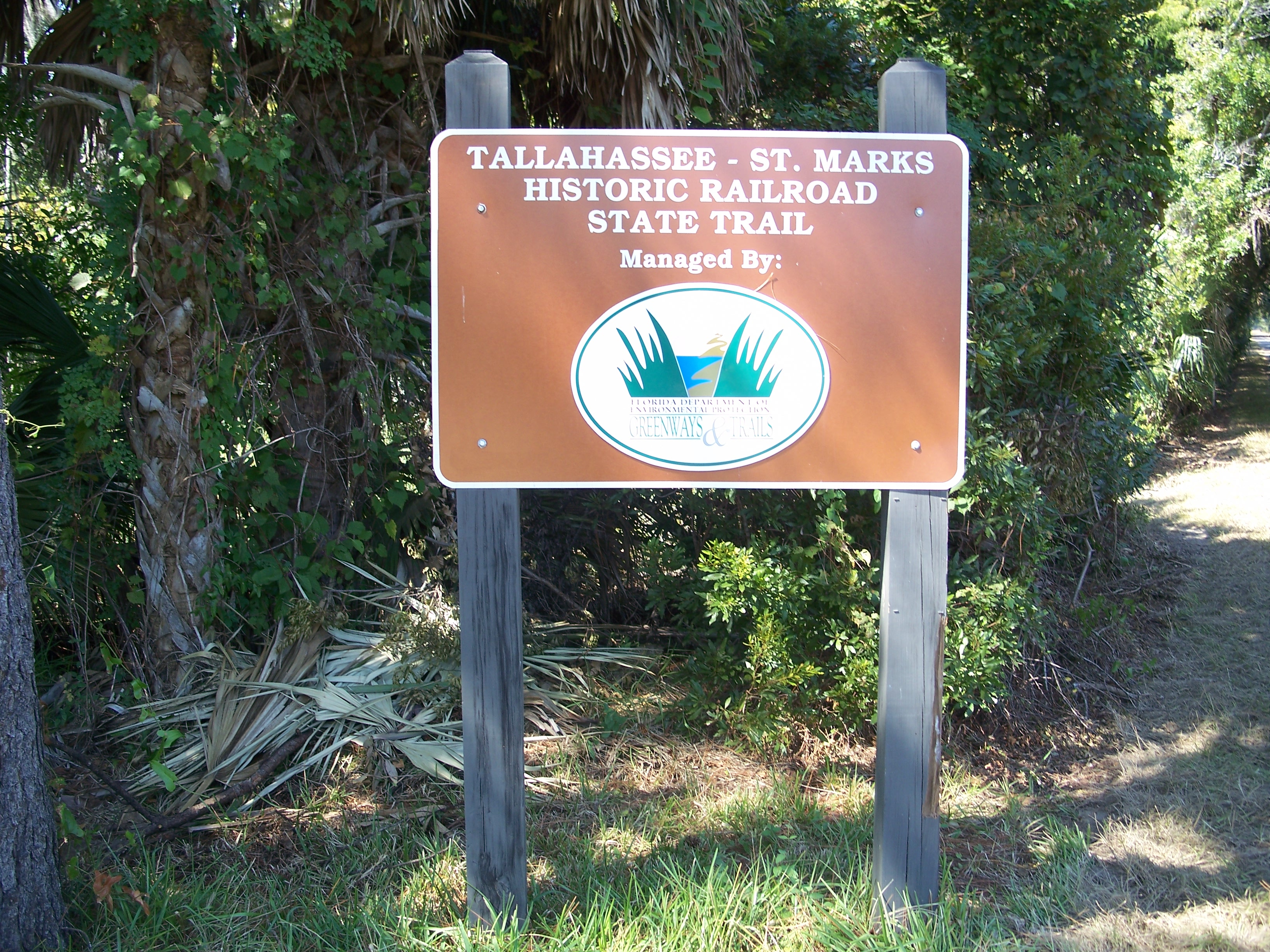 St. Marks, Florida: Tallahassee-St. Marks Historic Railroad Trail State Park: Sign